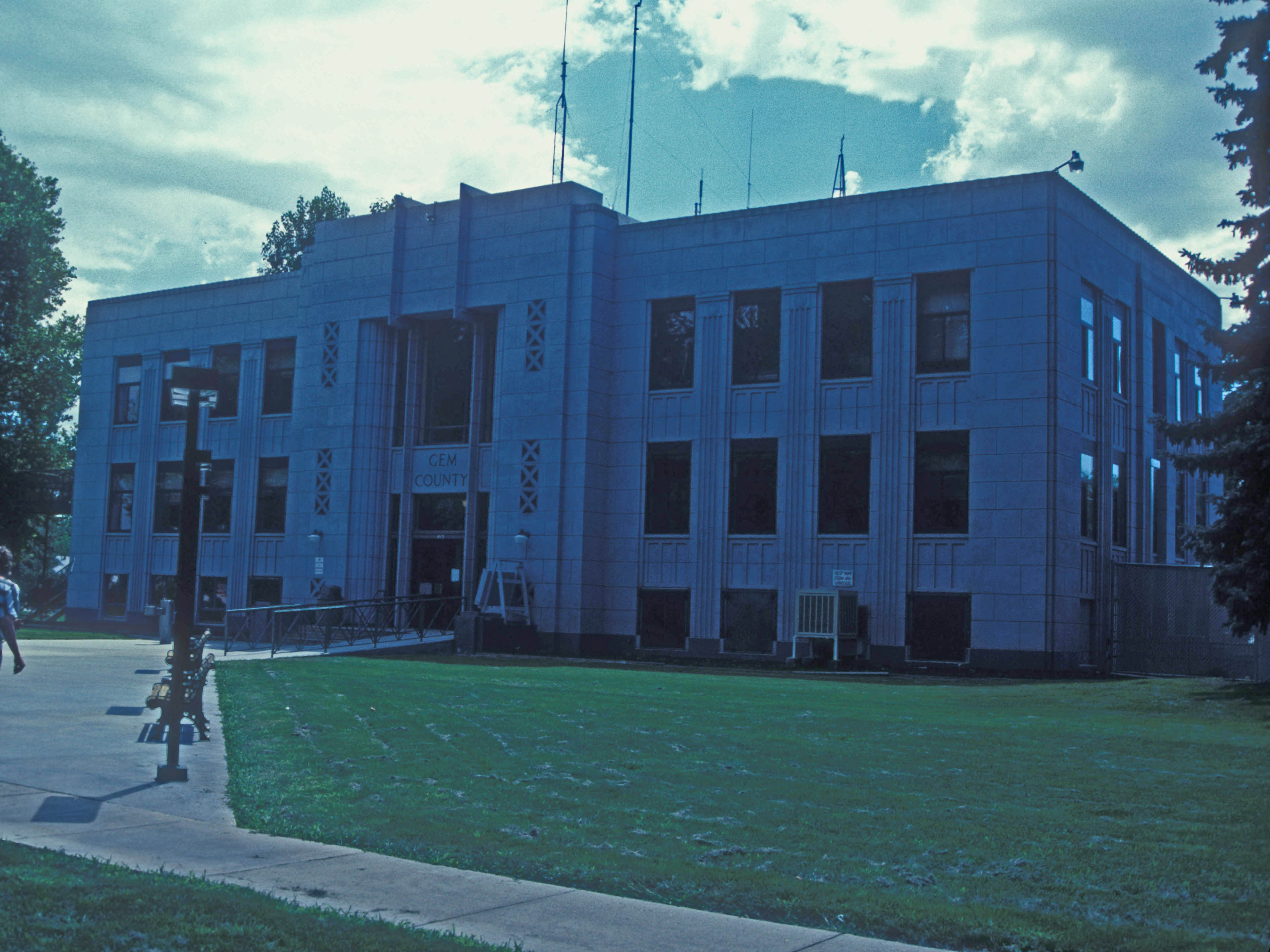 BUILT IN 1939 IN ART DECO STYLE